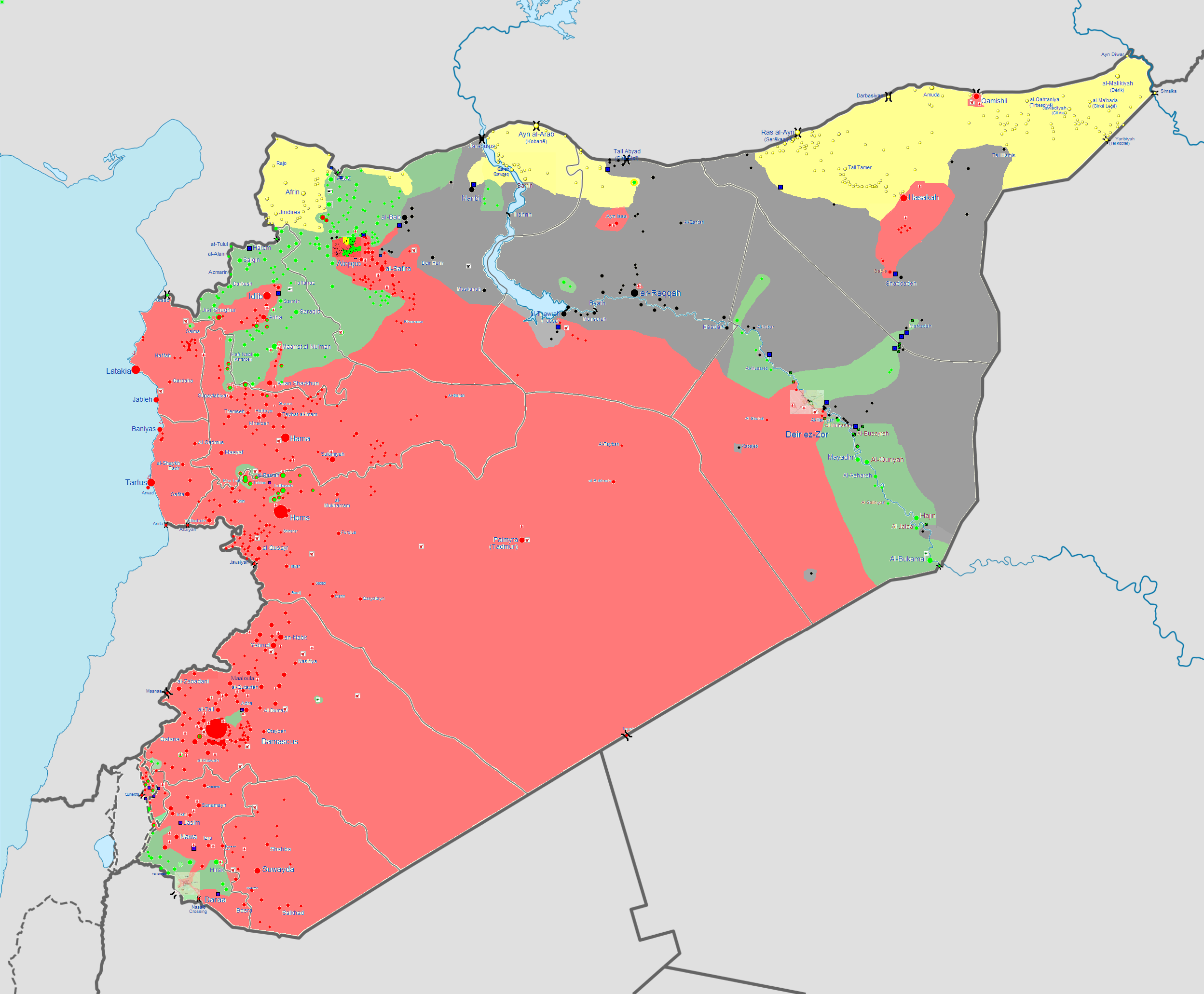 syrianwarmap